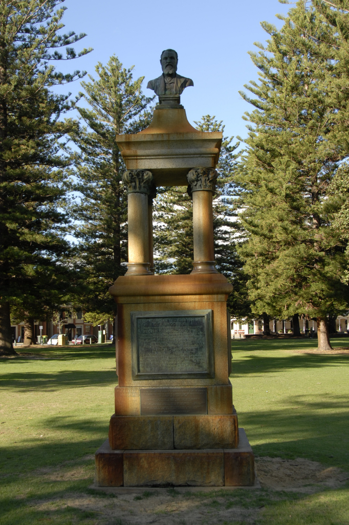 The Explorers' Monument in Fremantle, Western Australia. Ill-kept for many years, it is usally cast in shadow by the surrounding trees. Later, a plaque was afixed as an addendum to the sentiments expressed in the original. It begins THIS PLAQUE WAS ERECTED BY PEOPLE WHO FOUND THE MONUMENT BEFORE YOU OFFENSIVE....